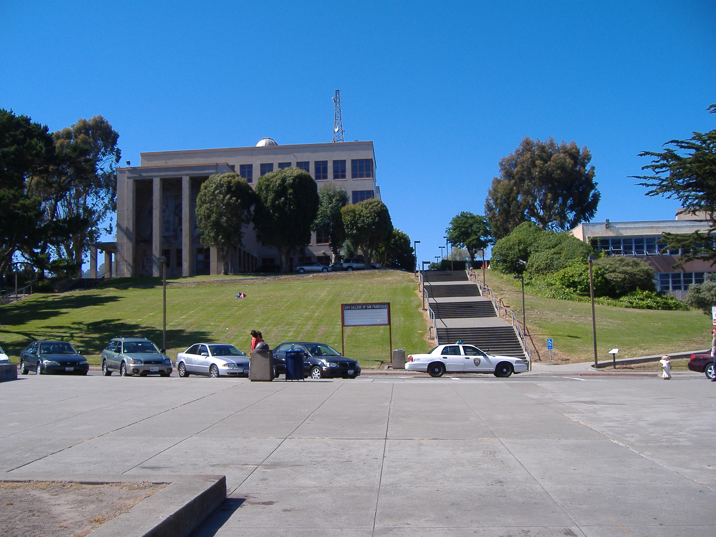 fair use cuz i took it, and free